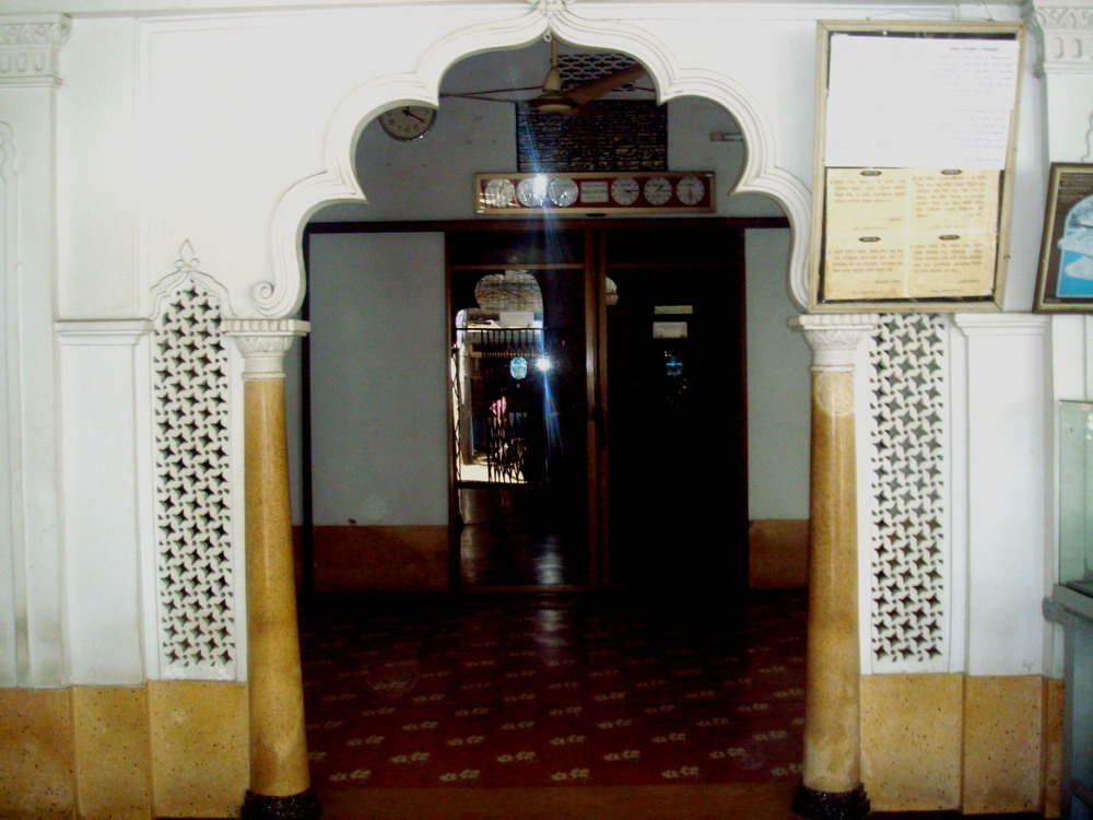 Churihatta Mosque of Old Dhaka.